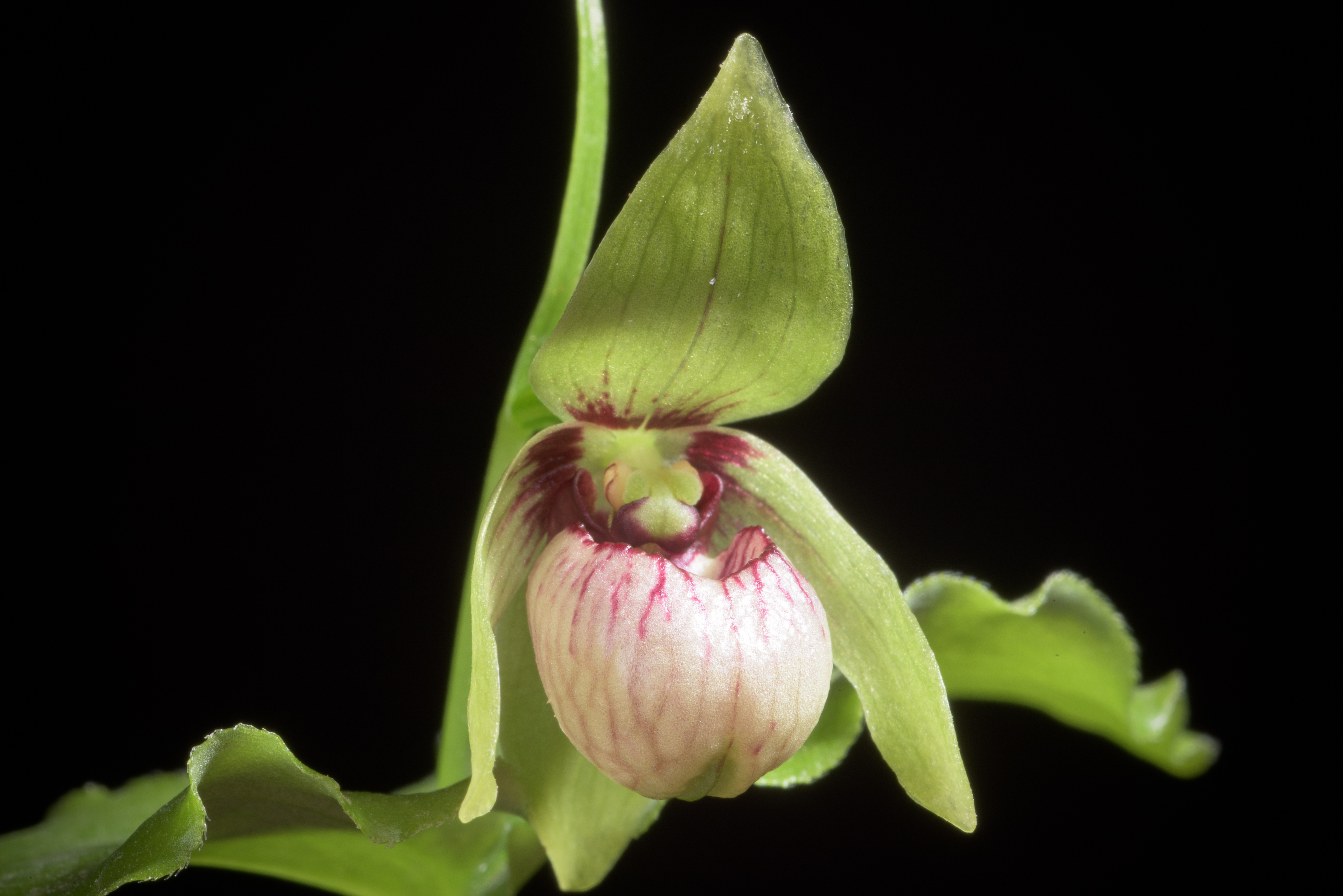 SECTION Retrinervia Distribution: Japan, N. Taiwan, SC. China (to S. Gansu) 36 CHC CHN 38 JAP TAI Found in Asia-Temperate China China North-CentralChina South-CentralEastern Asia JapanTaiwan